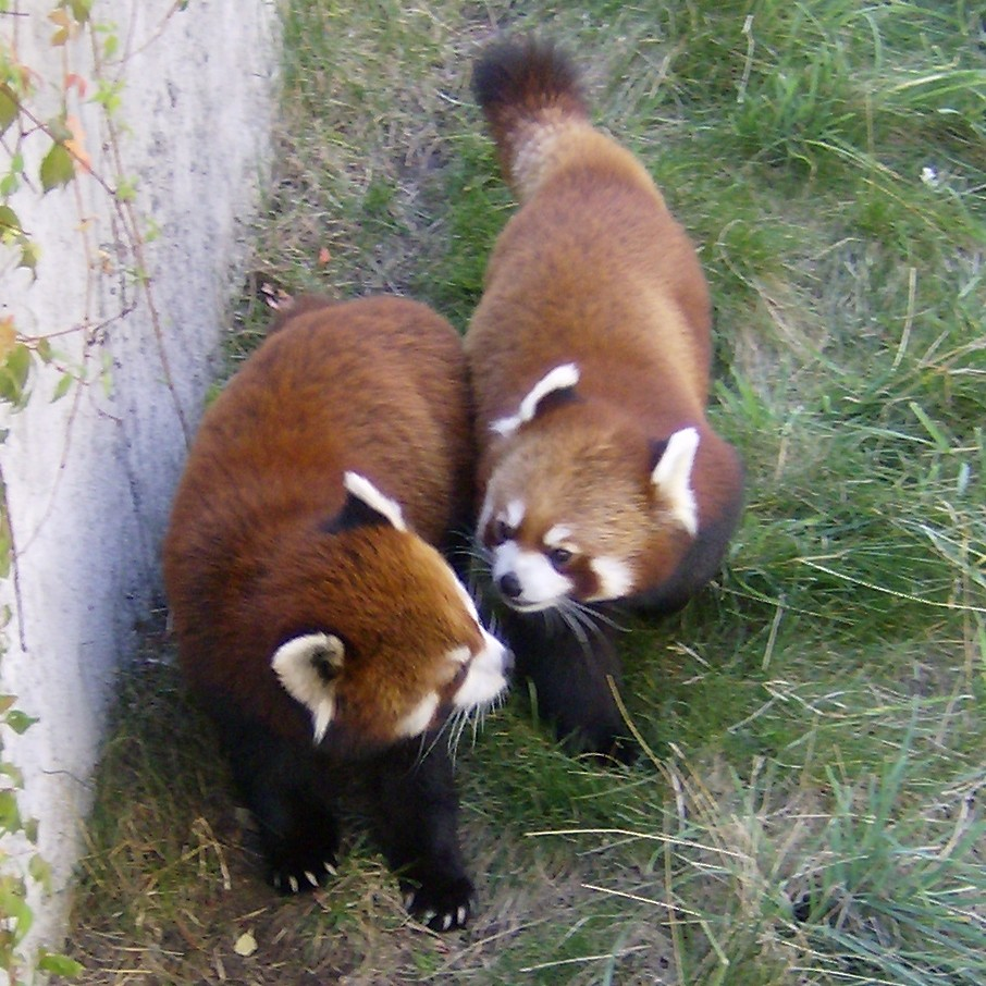 Two Red Pandas at the Calgary Zoo (in Calgary, Alberta, Canada). This image was cropped.